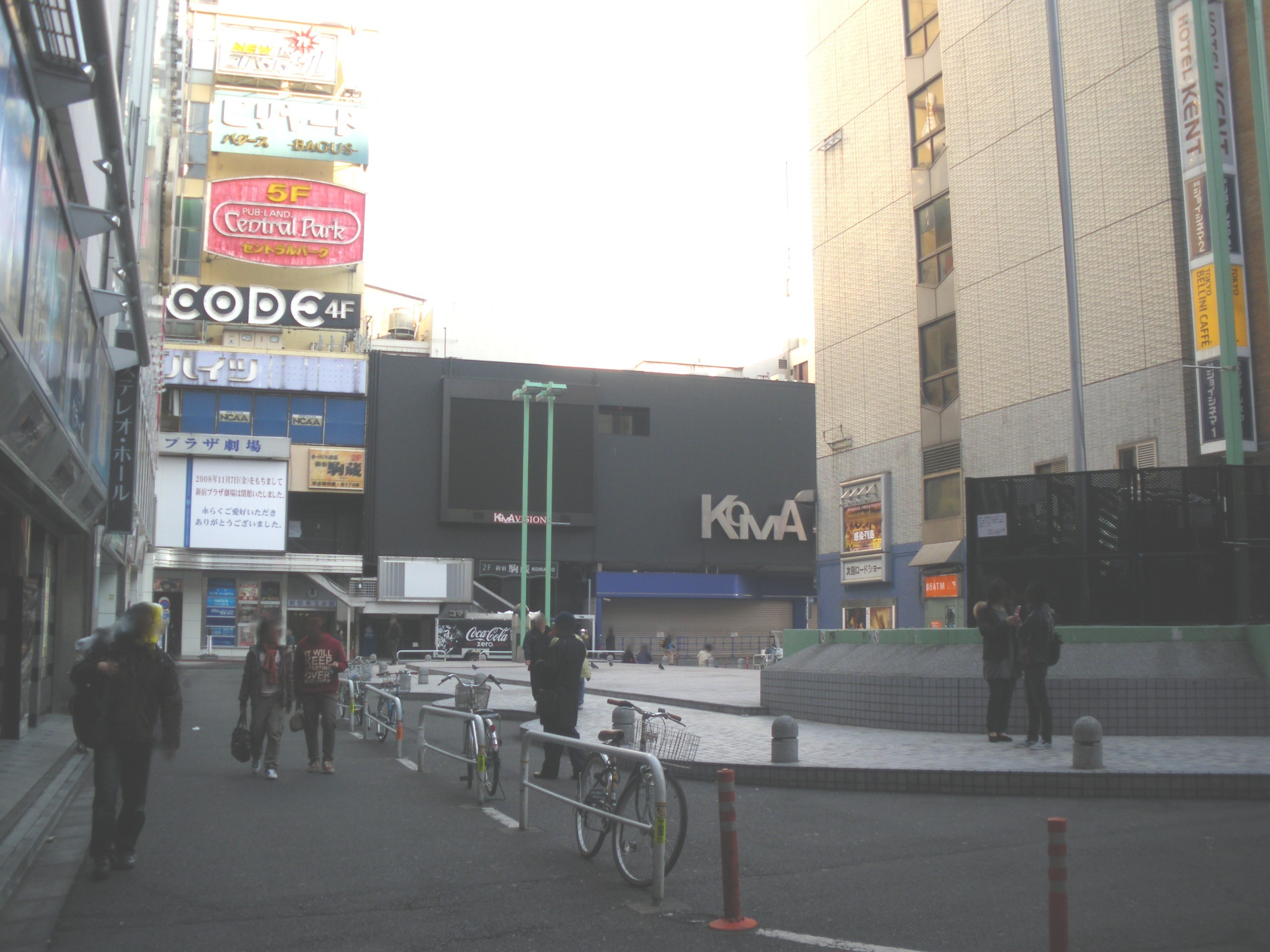 A photo of the open space of Kabukicho.(Cinecity plaza) It is located the center of Kabukicho area.